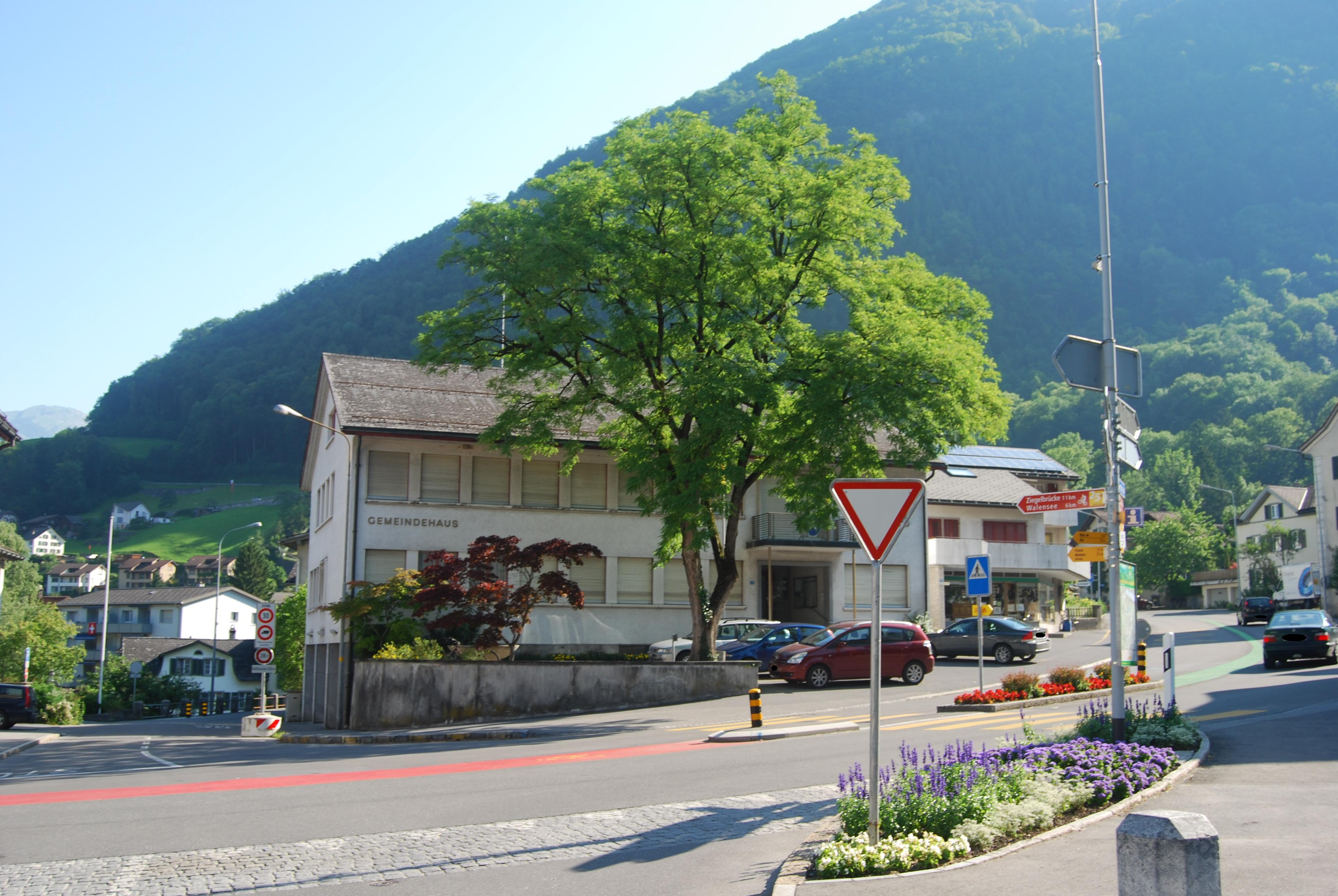 Municipal administration of Mollis, canton of Glarus, SwitzerlandEsperanto: Komunuma domo de Mollis, Kantono Glaruso, Svislando